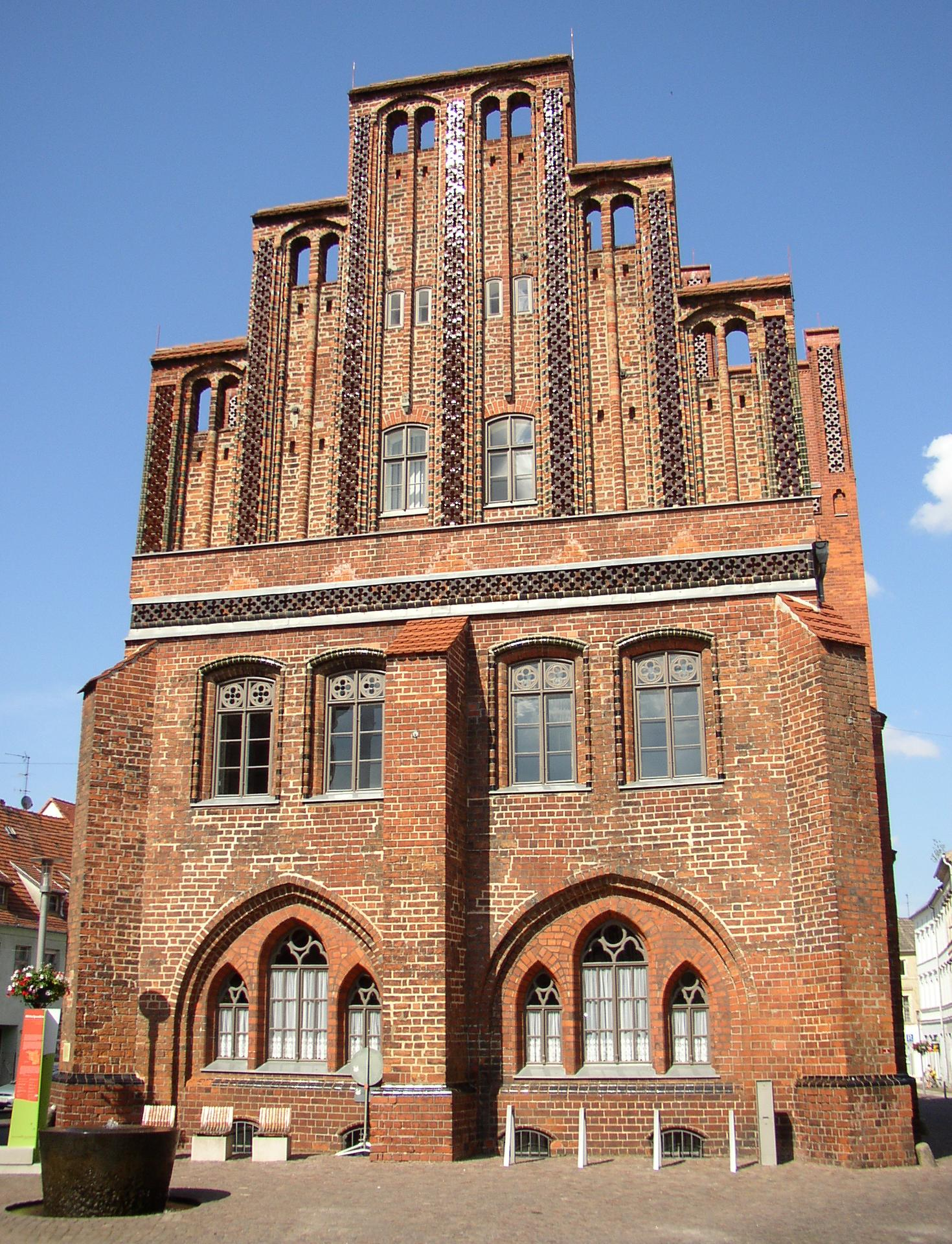 Town hall in Perleberg in Brandenburg, Germany